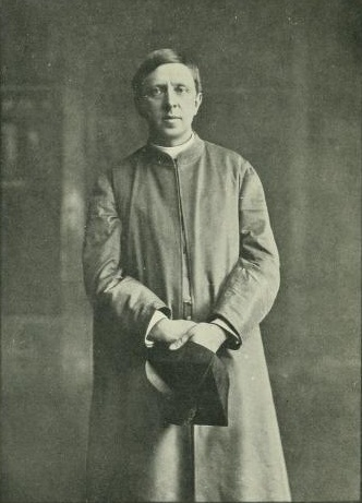 Rev. Robert Hugh Benson, by Sarony, 1912.